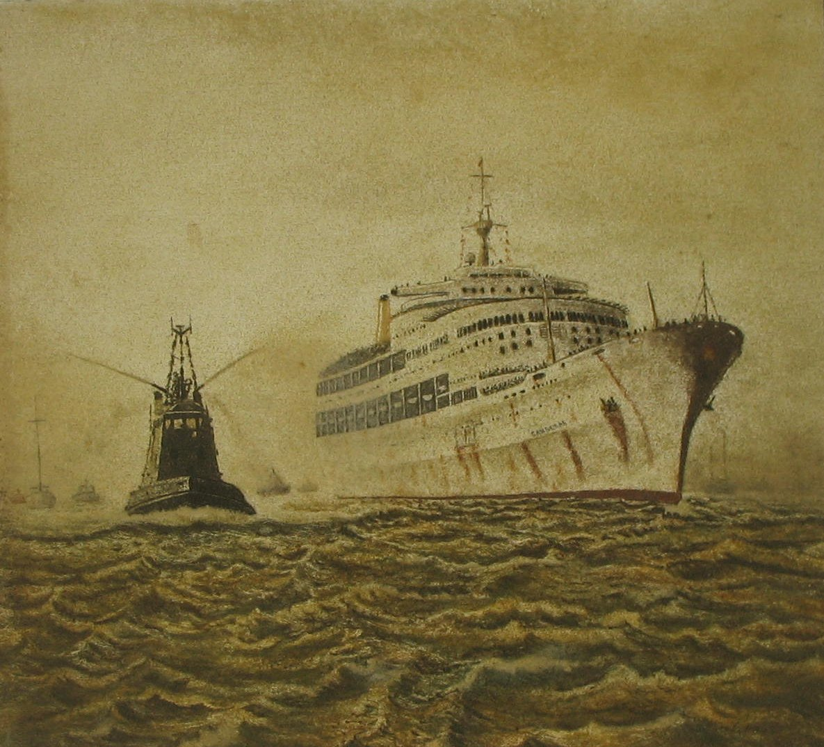 Sand Painting by Environmental sand artist Brian Pike using natural coloured sands as 'paint' discarded feathers as 'brushes' and plywood offcuts as a 'canvass'. (size:46cms by 36cms) (Artist!s collection)